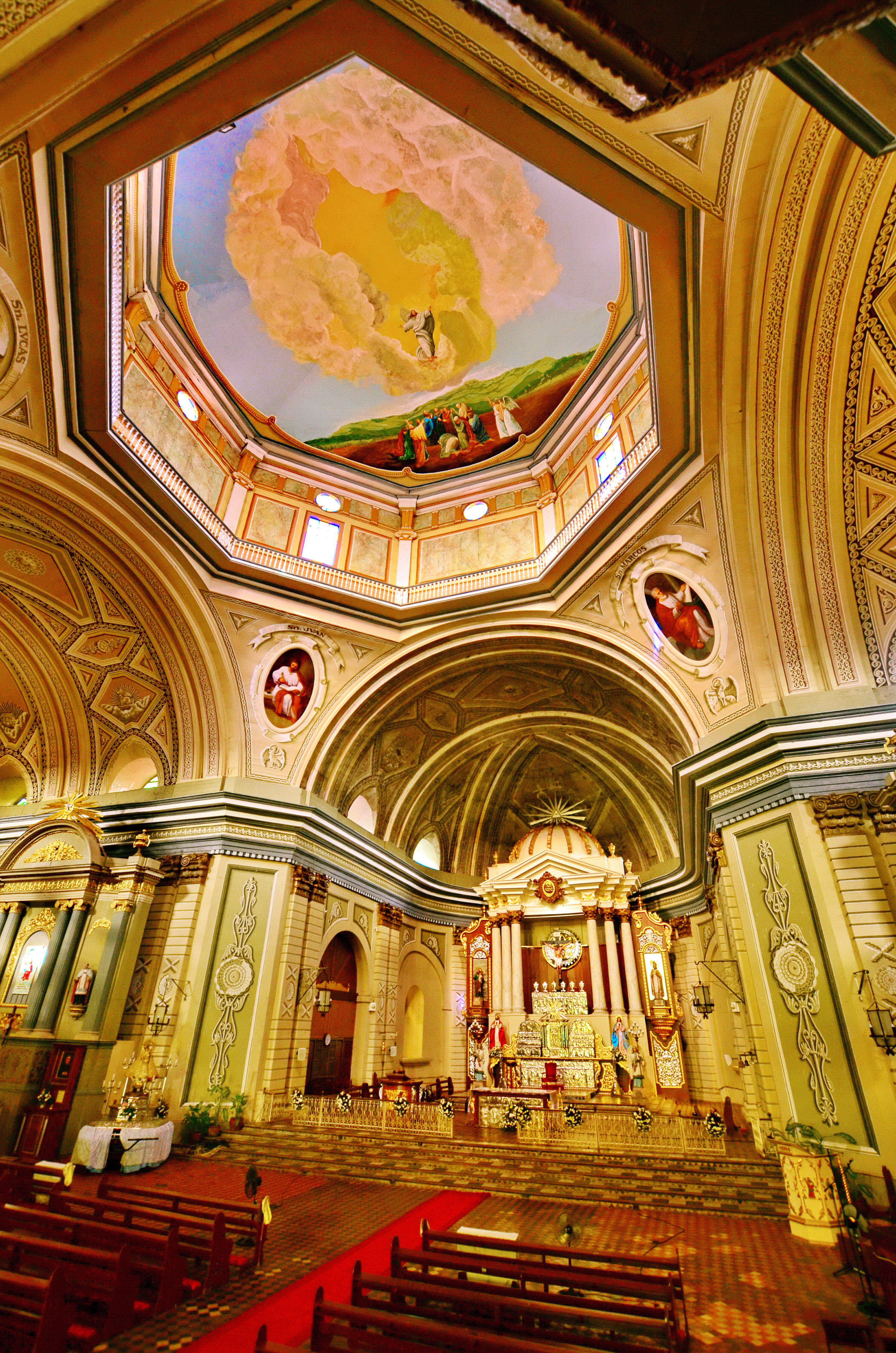 Basilica de San Martin de Tours, Taal, Batangas